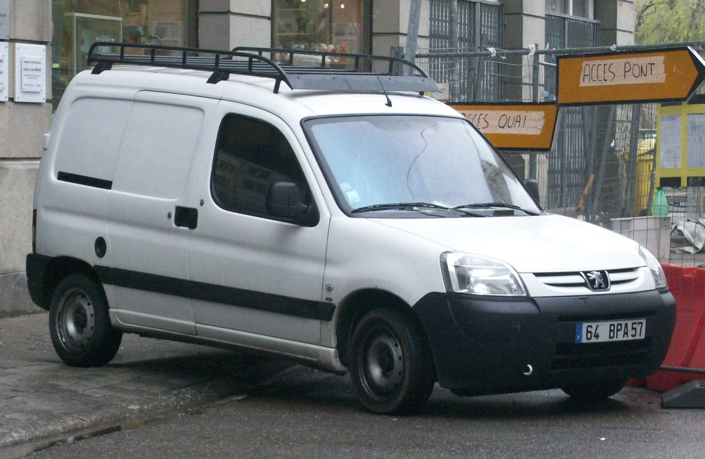 Peugeot Partner Mk1